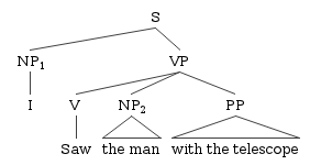 treesy